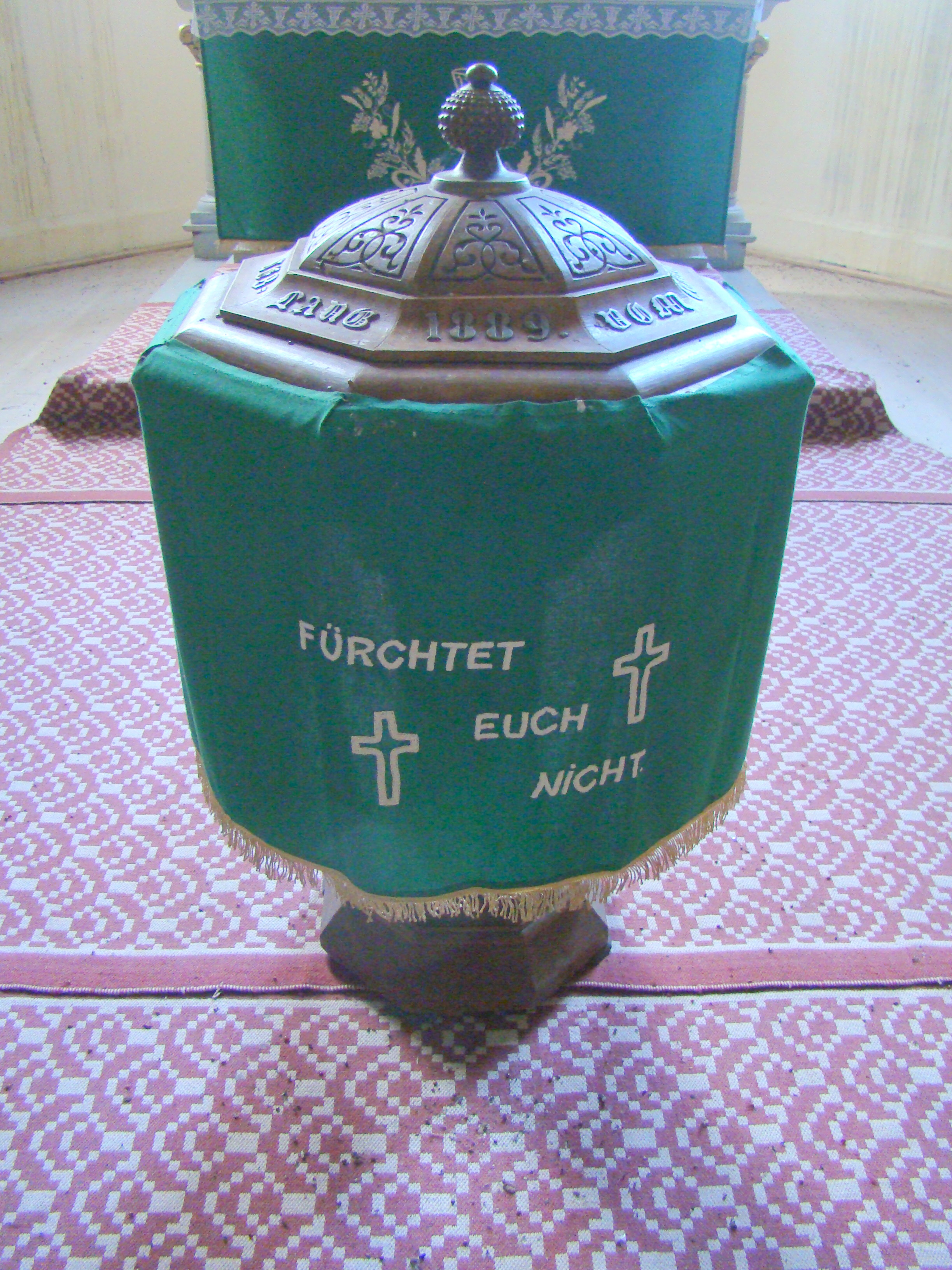 Lutheran church in Lovnic, Brașov County, Romania